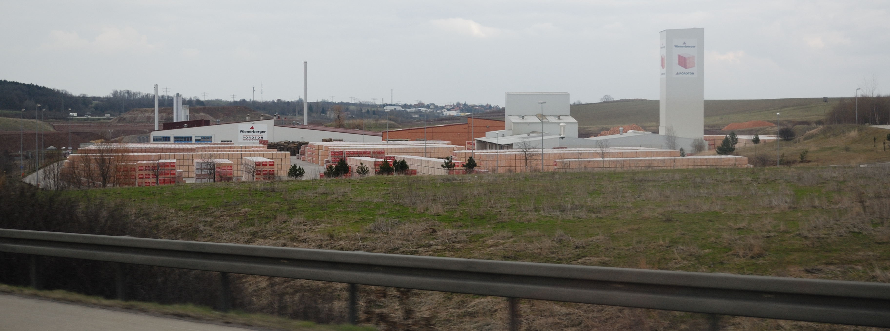 Wienerberger brick plant in Eisenberg, Germany. Road shot from A 9.